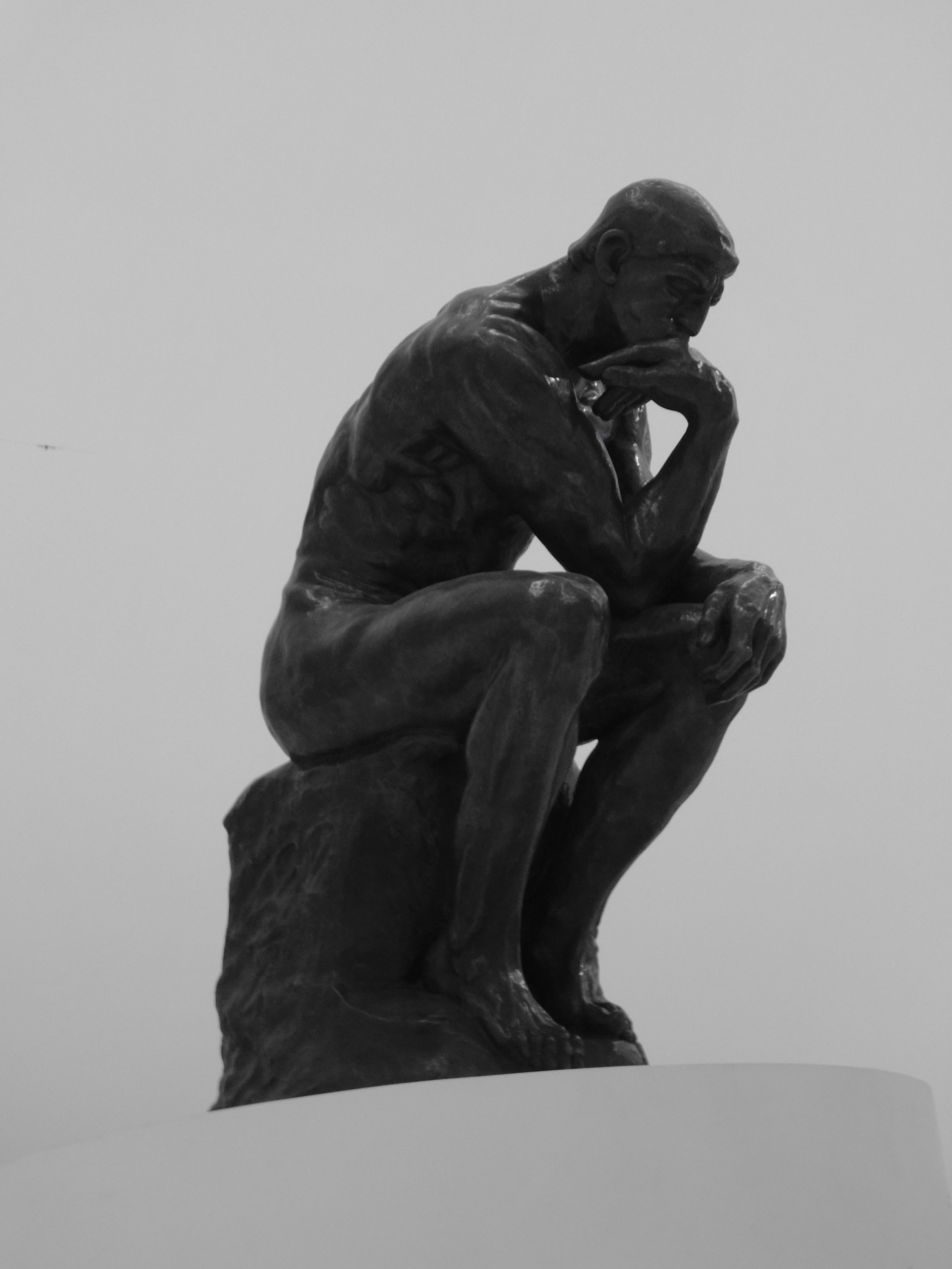 Le Penseur — from the Auguste Rodin collection at Museo Soumaya. In the Museo Soumaya Plaza Carso vestibule, in México, D.F.